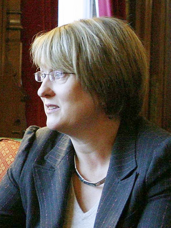 Further cropped version of File:Smith, Jacqui (crop).jpg on Commons